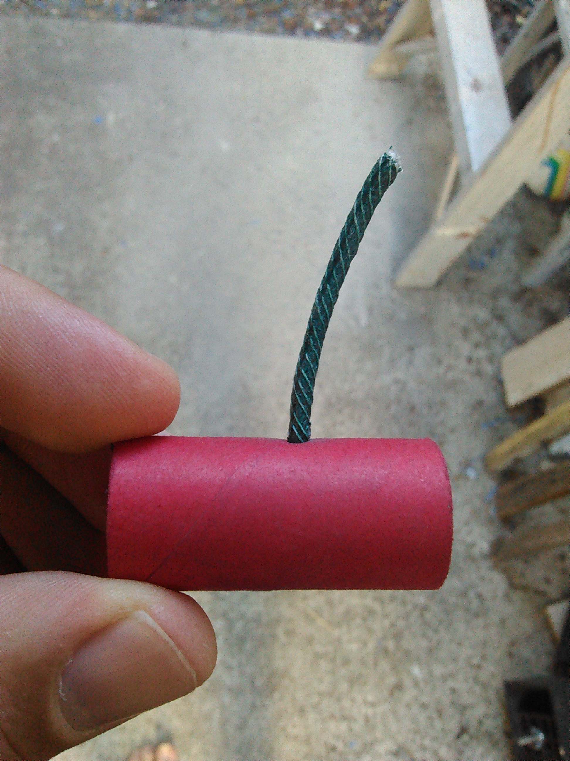 m-80 device